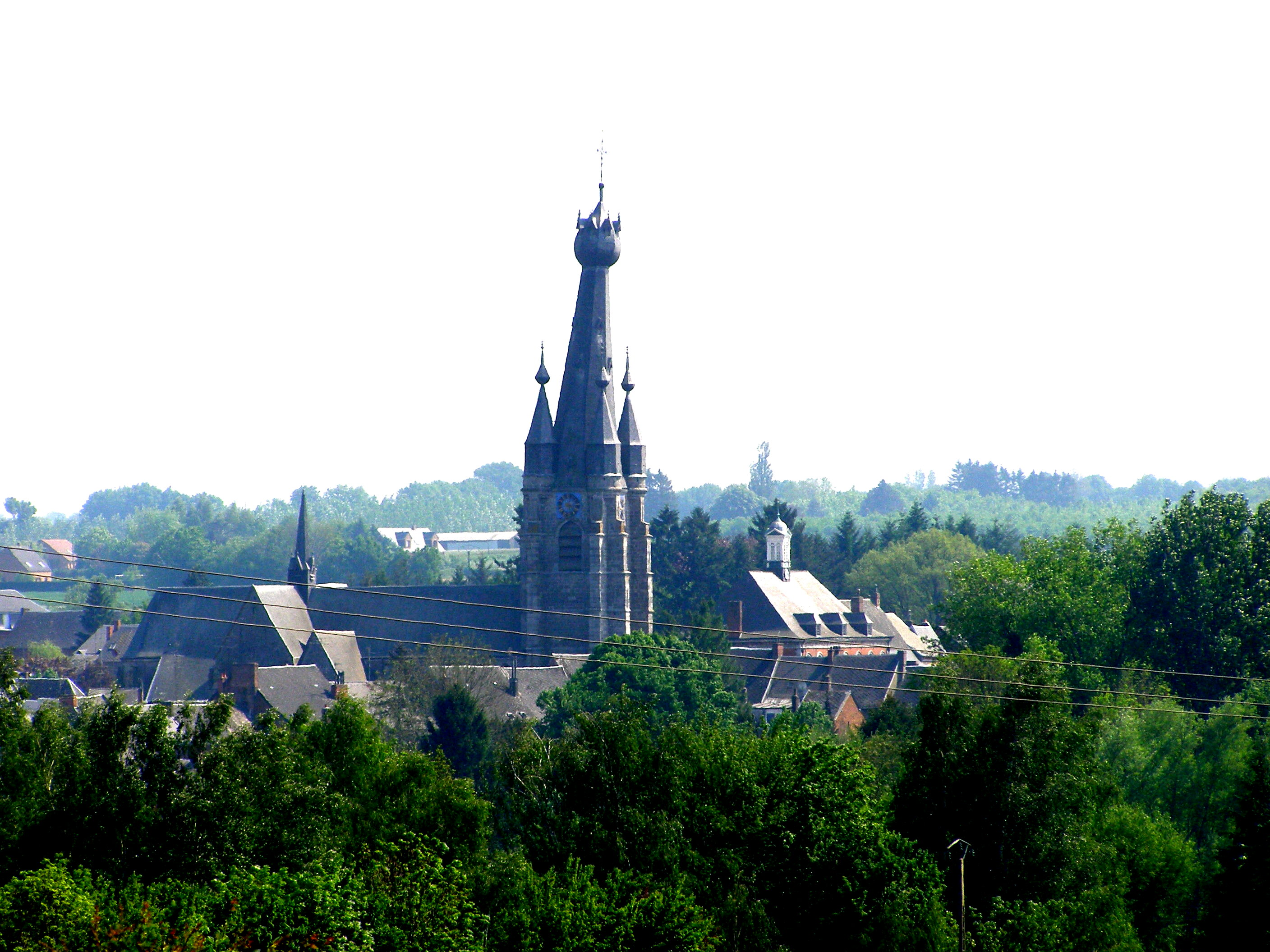 The leaning bell tower of the church Solre Castle.